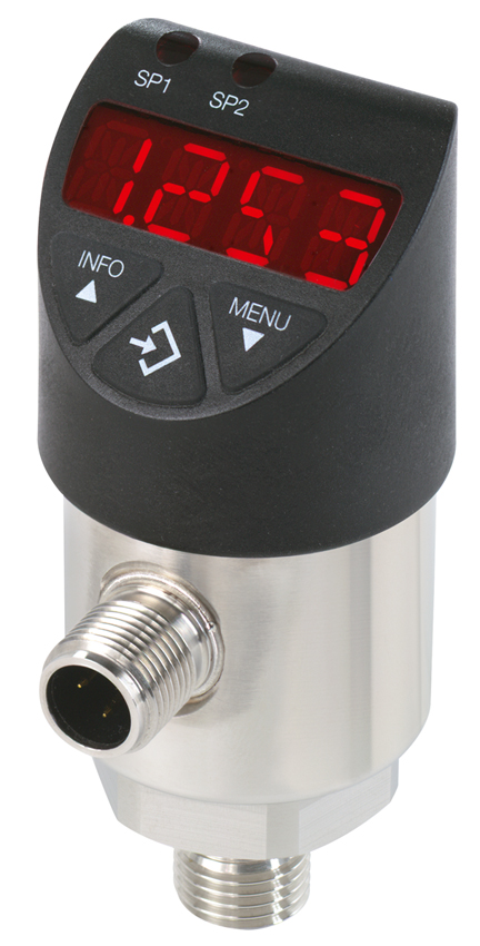 Electronic pressure switch PSD-30 with LED-display by WIKA Alexander Wiegand SE & Co. KG